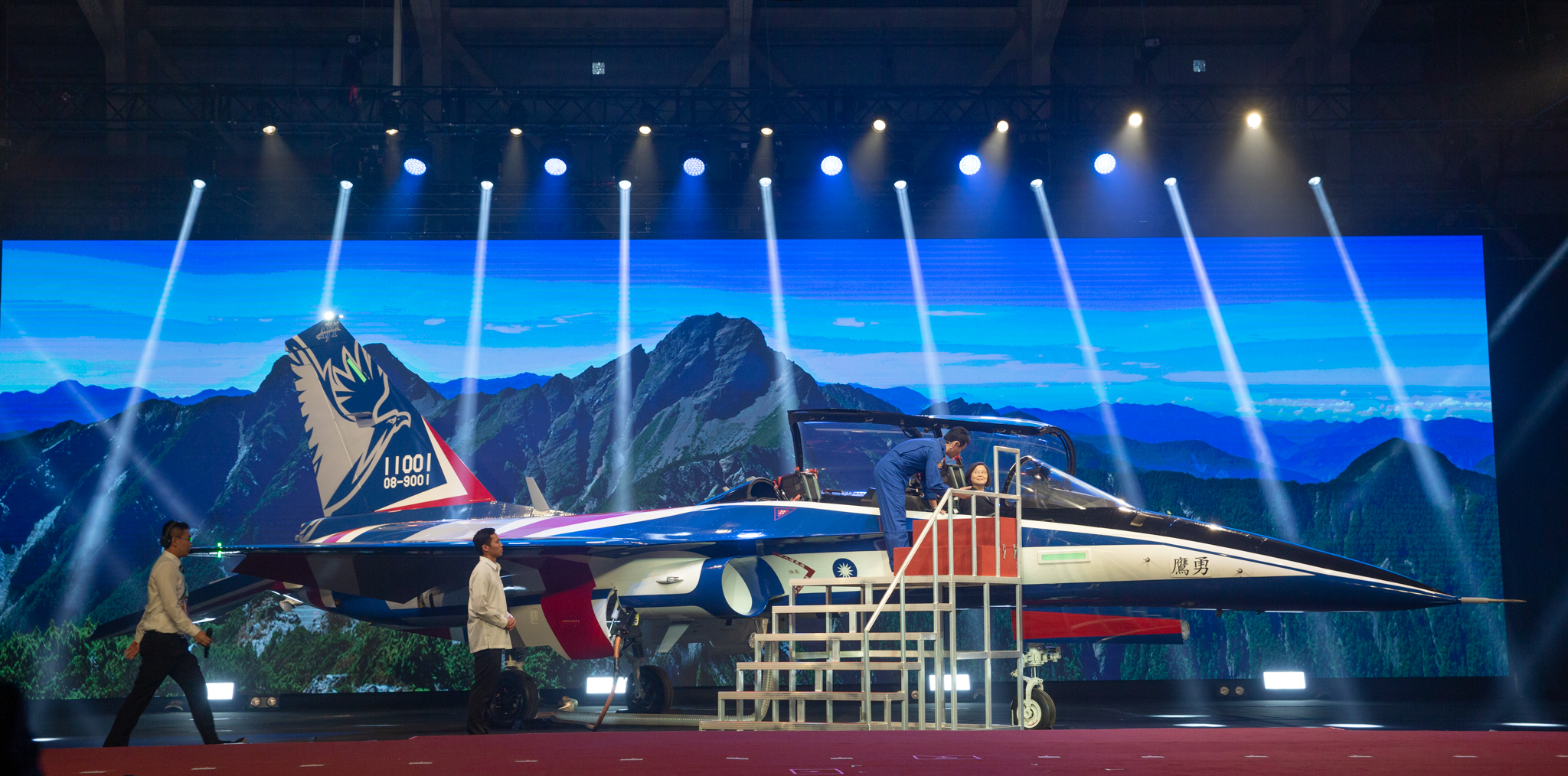 Official Photo by Wang Yu Ching / Office of the President